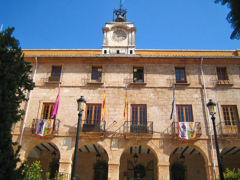 Denia town hall, County Marina Alta, Region of Valencia, Spain.